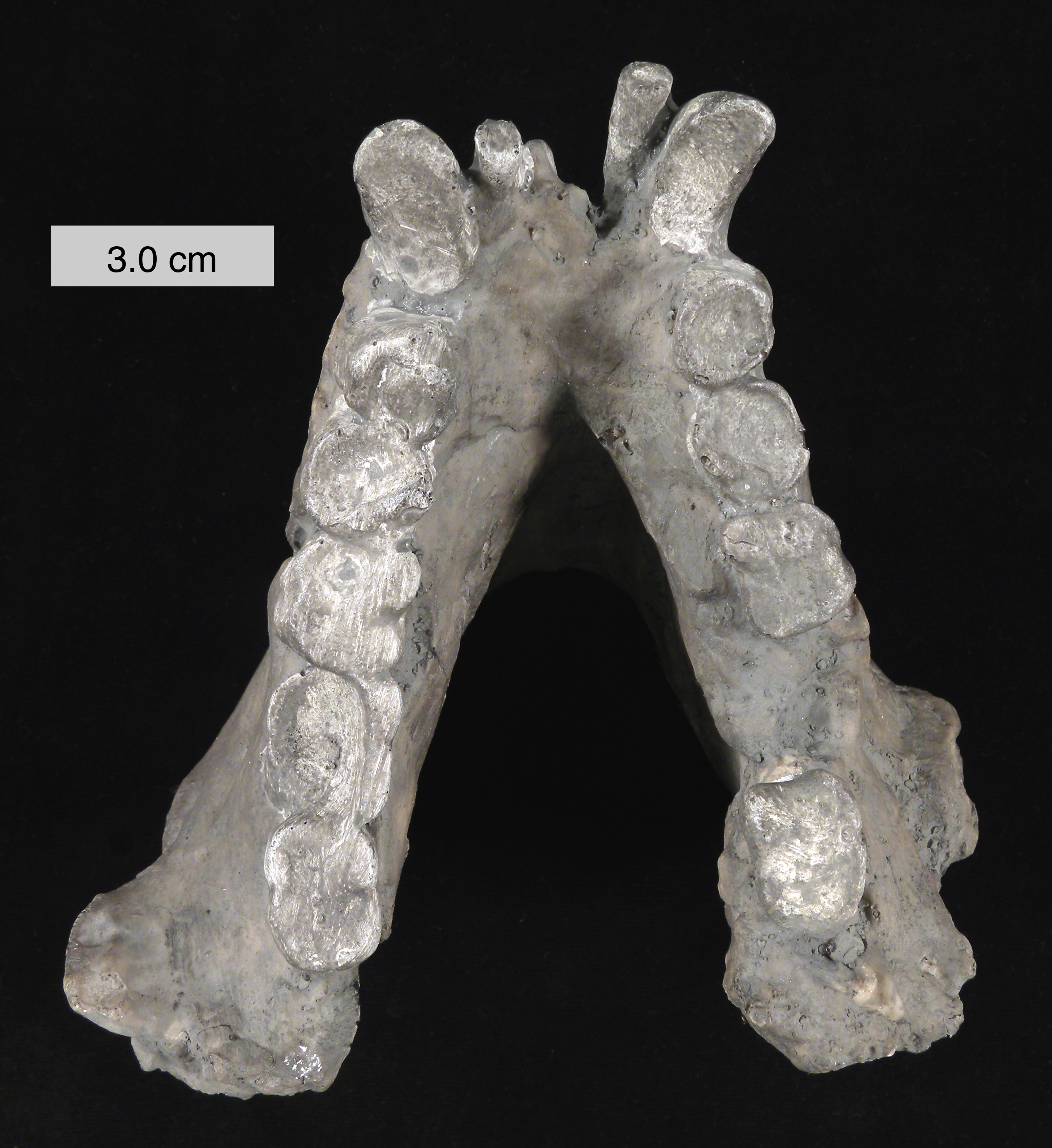 Lower mandible of Gigantopithecus blacki (cast). In the collections of The College of Wooster, Ohio.